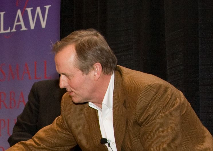 John Grisham